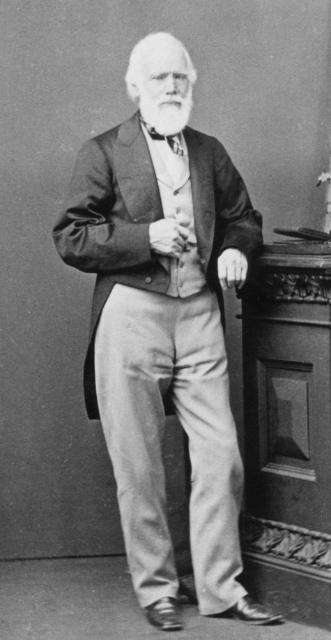 Depicted person: George Fife Angas – Australian politician